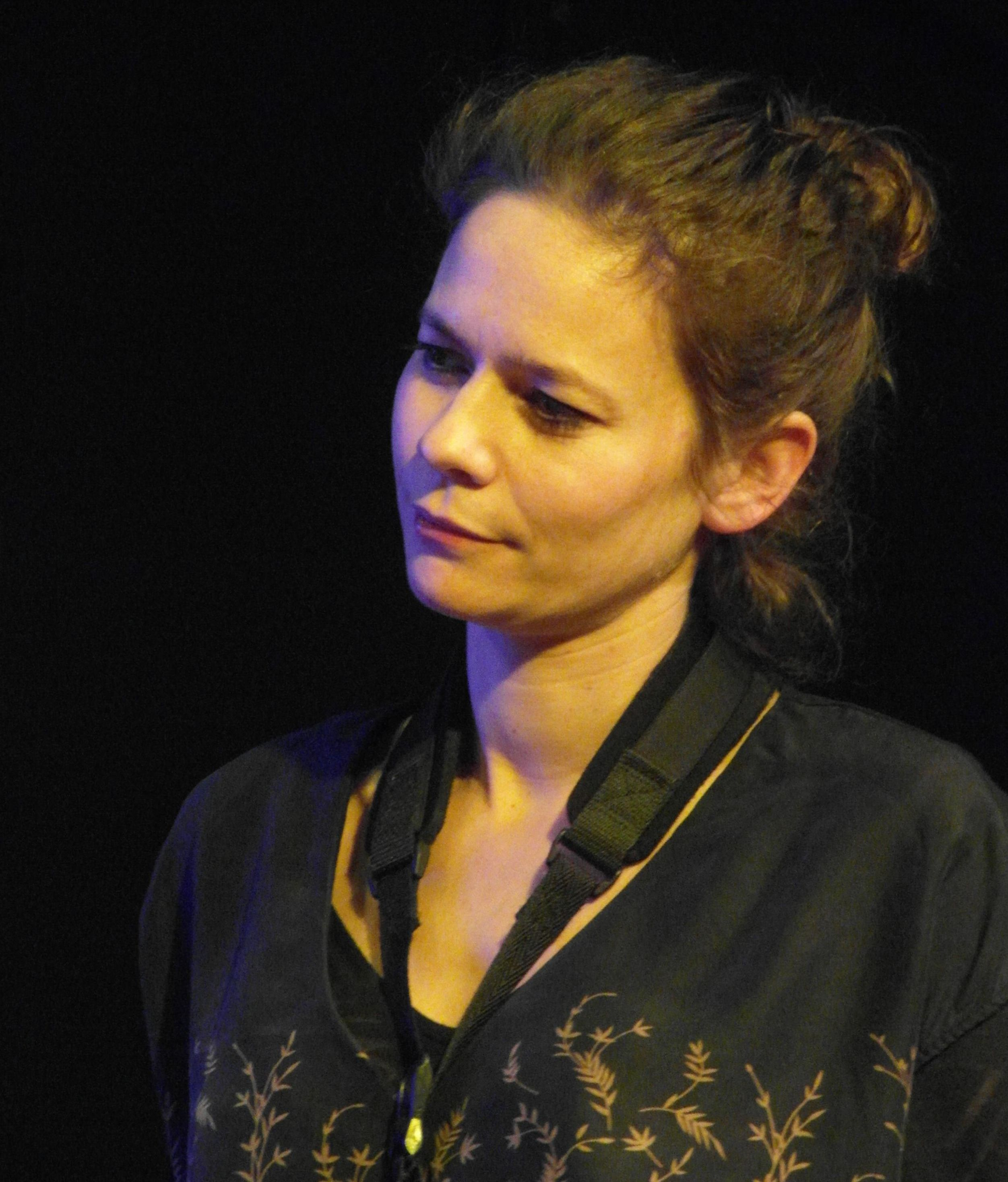 Sophie Alour during the concert at the 1988 jazz club in Rennes (France)